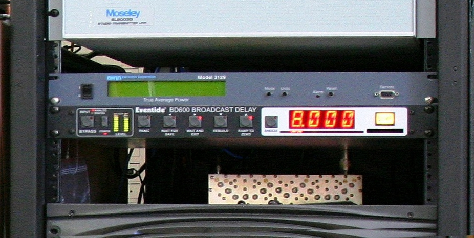 An Eventide digital delay (set for eight seconds).